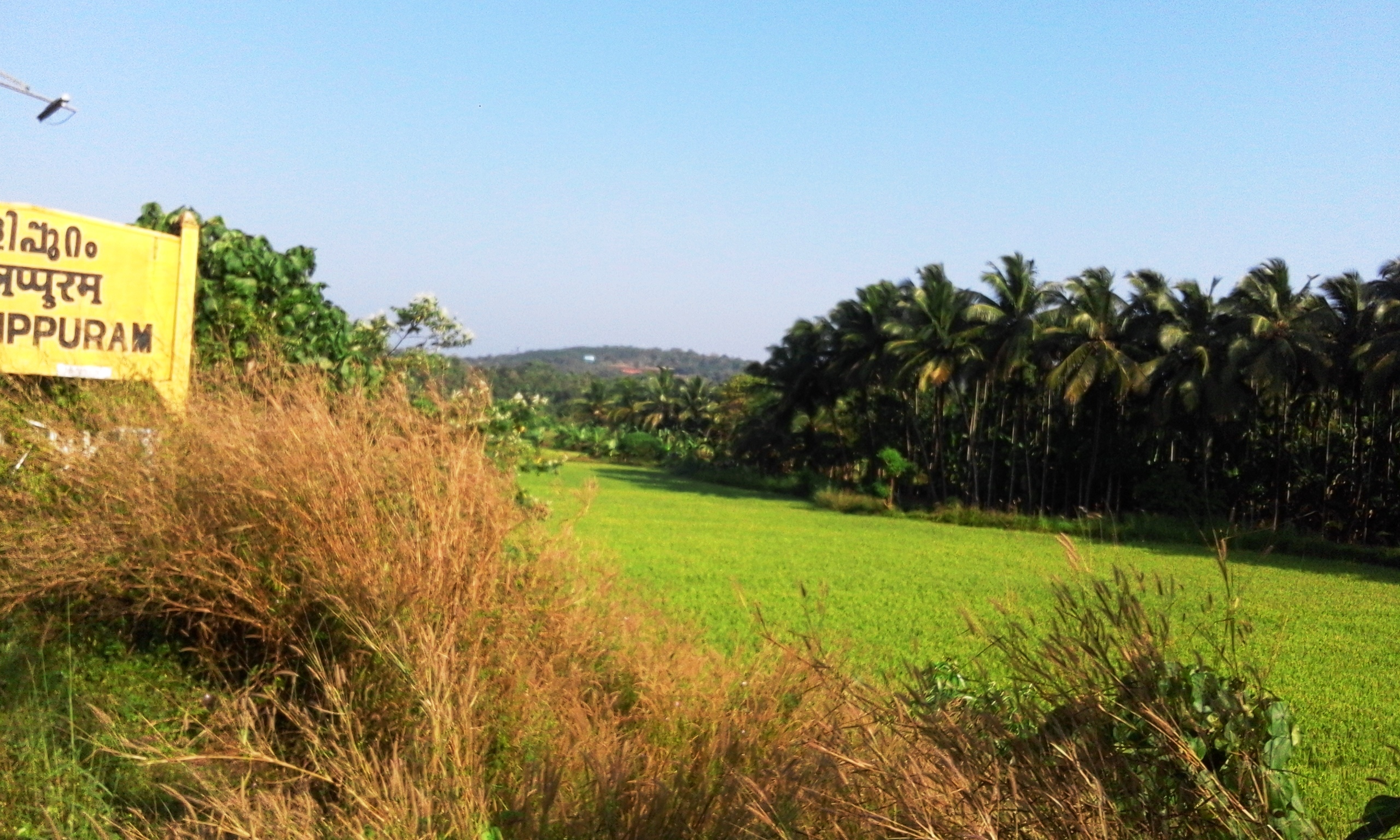 South Malabar Region, Kerala Province, India.